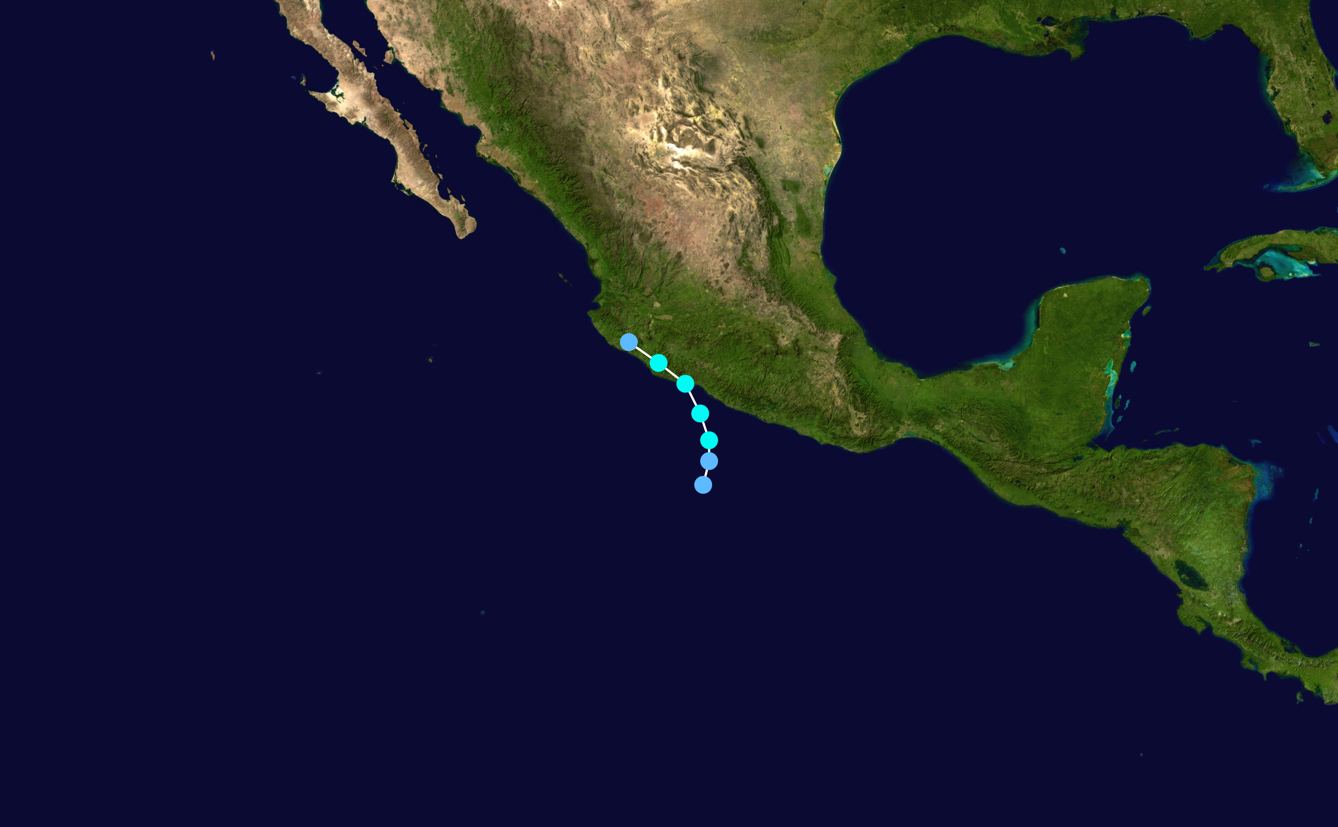 Tropical Storm Julio (2002) track. Uses the color scheme from the Saffir-Simpson Hurricane Scale.